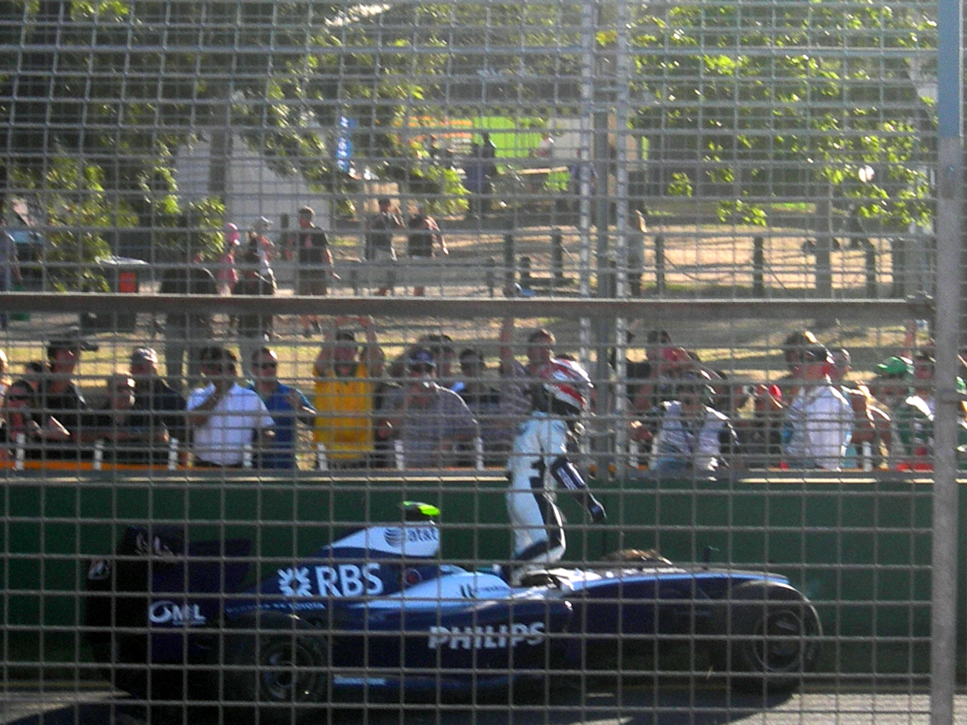 Nakajima after retiring from the 2009 Australuan Grand Prix